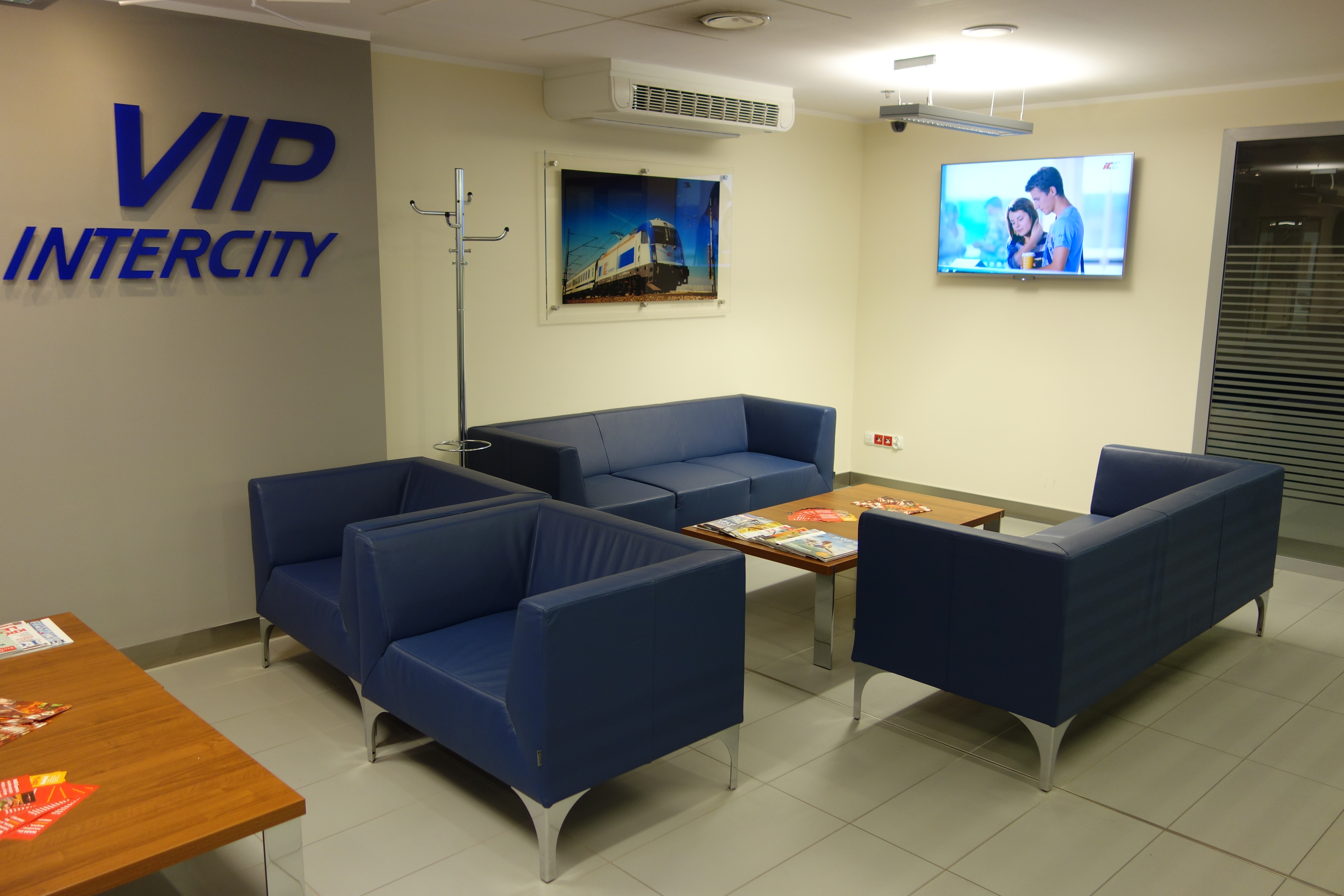 Kraków Główny - poczekalnia 1. klasy This photo was taken during Railway Wikiexpedition 2014 set up by Wikimedia Polska Association in cooperation with Fundacja Grupy PKP. You can see all photographs in category Wikiekspedycja kolejowa 2014.